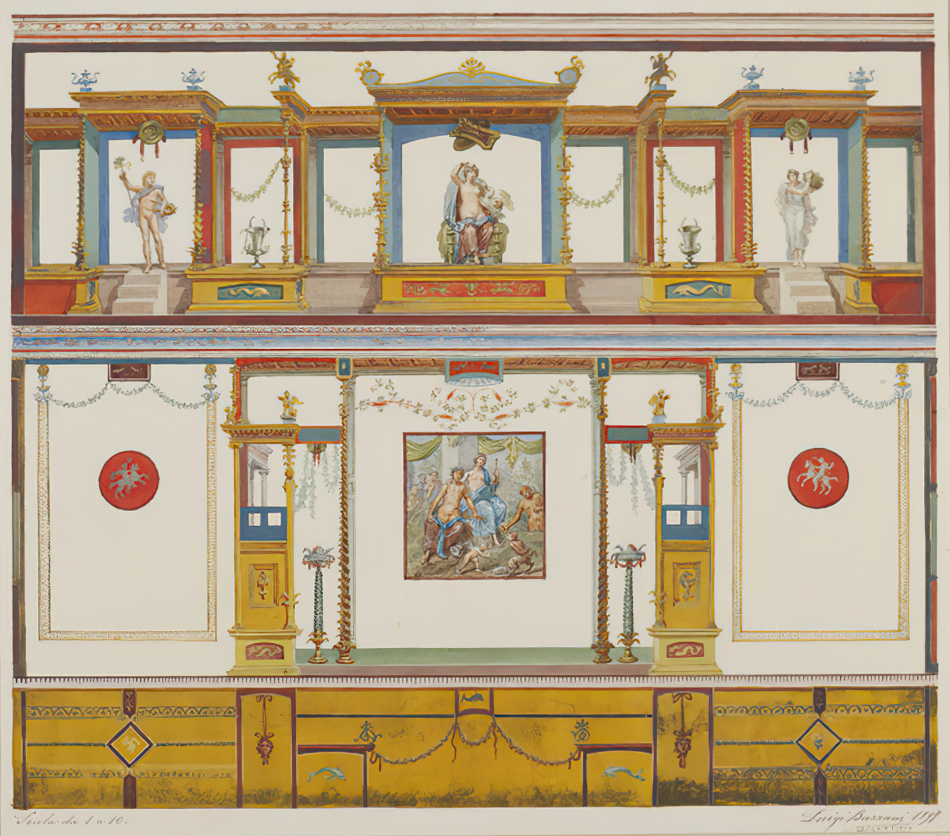 Architectural fresco with mural in Pompeii watercolor by Luigi Bazzani. Currently held in the Victoria and Albert Museum in London, England.